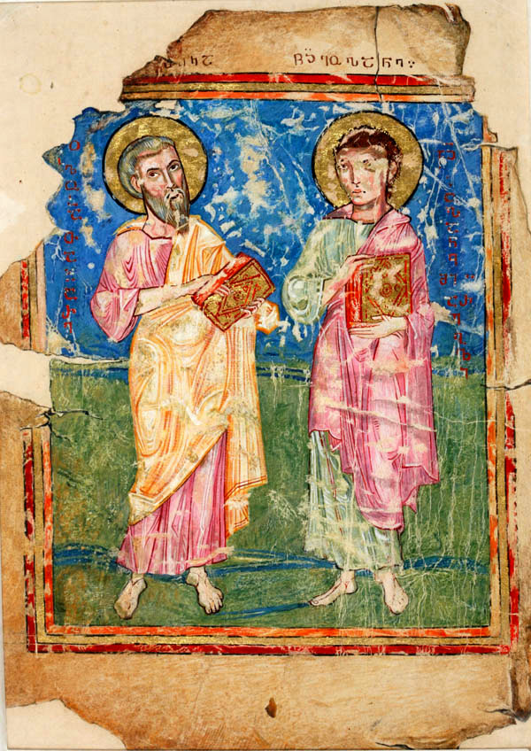 St Luke and St John, an illumination from the title page of the Georgian Adysh Gospels, AD 897